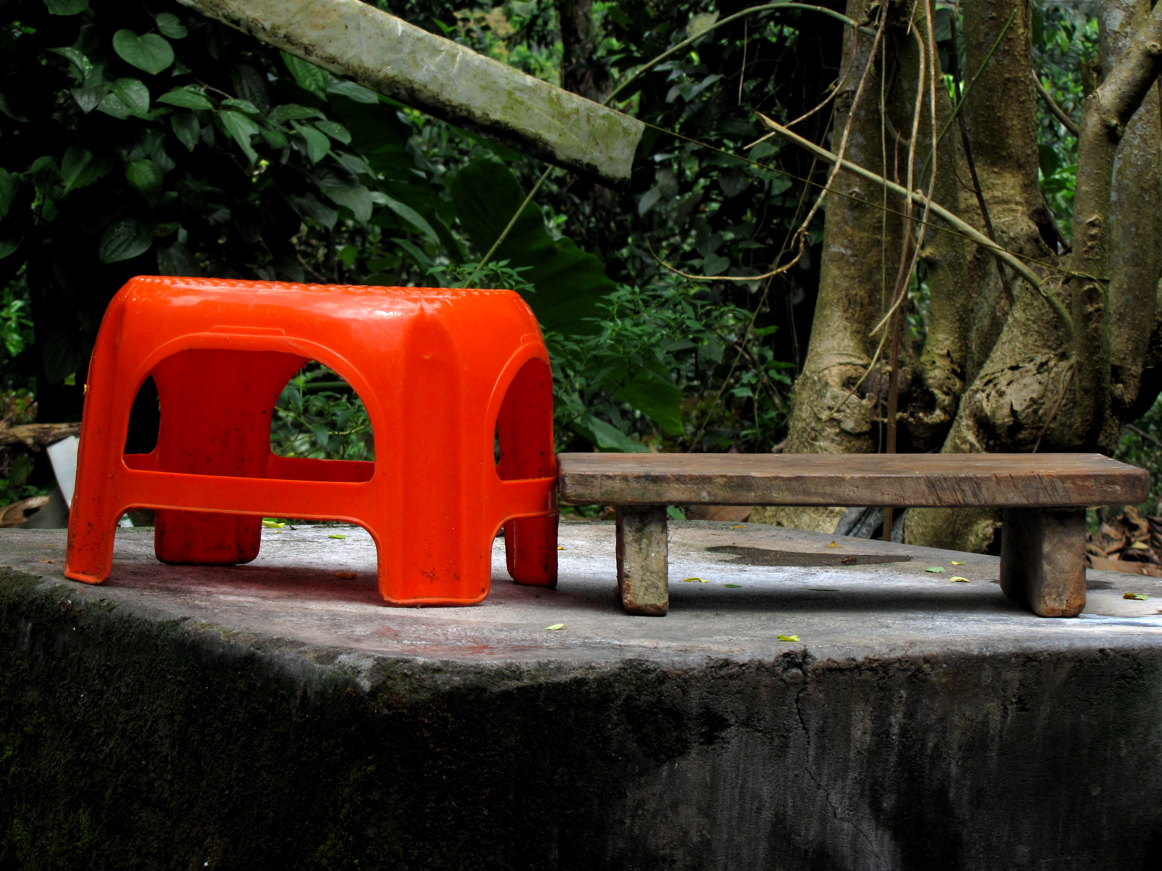 Wooden seat and its plastic version. Plastic version's height is more but the use is similar.